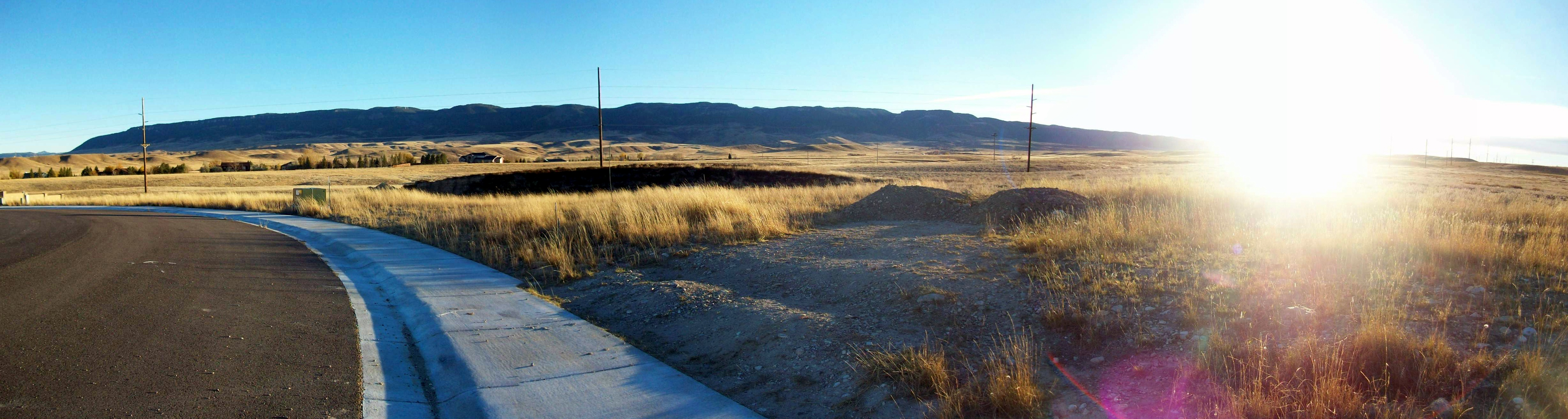 Casper Mountain from the Eastgate II subdivision on the east side of Casper... looking south.